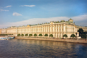 The Hermitage, St Peterburg, Russia. Exterior, 1994, by user:alex756 350px X 250px